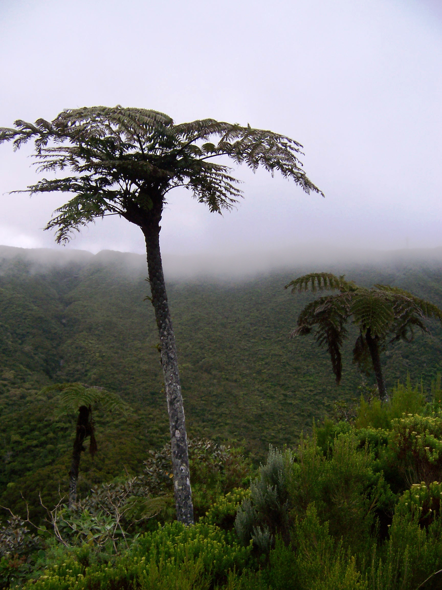 The tree-fern Cyathea glauca, endemic species of Réunionisland, near the village of la Plaine des Palmistes